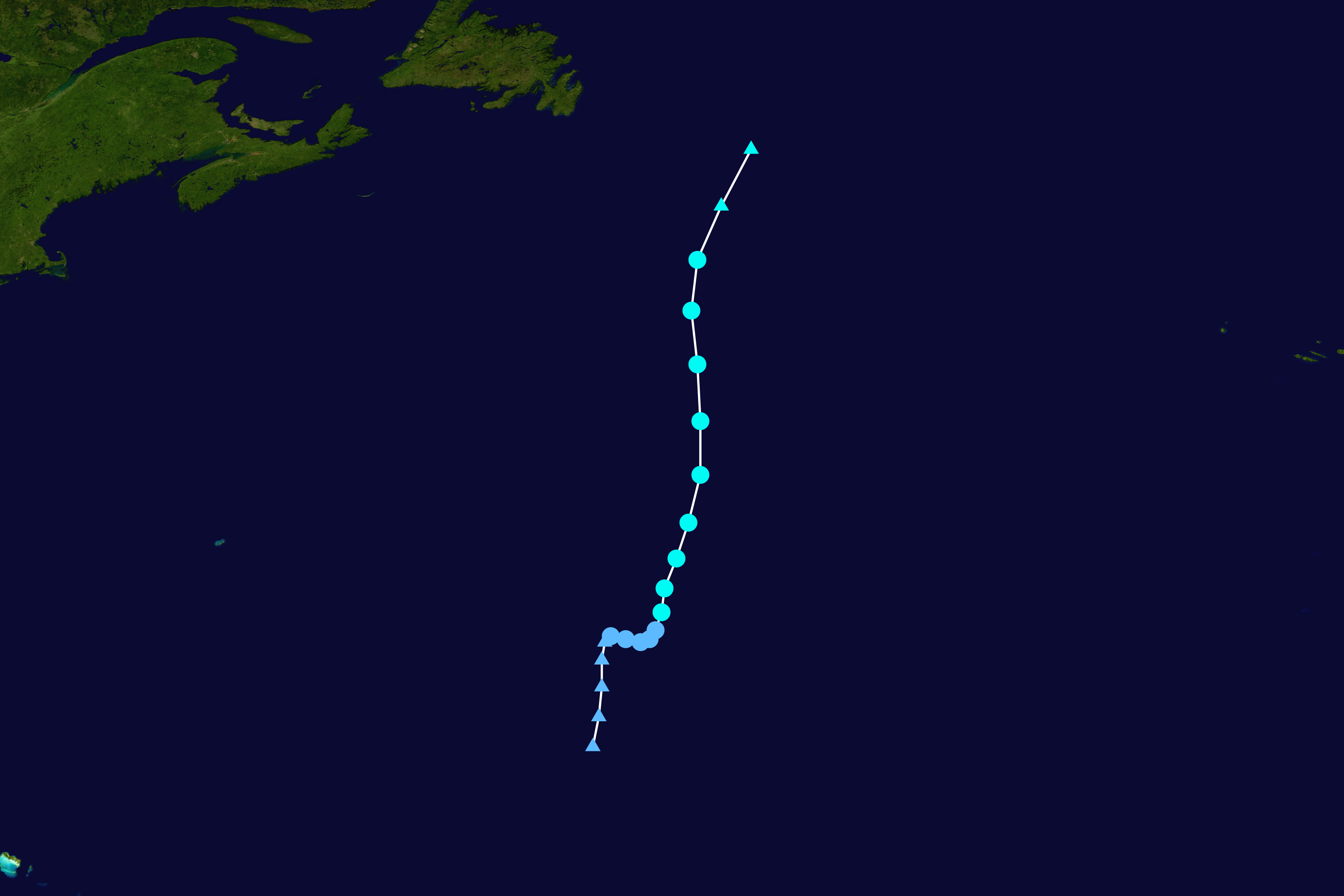 Track map of Tropical Storm Rina of the 2017 Atlantic hurricane season. The points show the location of the storm at 6-hour intervals. The colour represents the storm's maximum sustained wind speeds as classified in the Saffir–Simpson scale (see below), and the shape of the data points represent the nature of the storm, according to the legend below. Saffir–Simpson scale Tropical depression≤38 mph≤62 km/h Category 3111–129 mph178–208 km/h Tropical storm39–73 mph63–118 km/h Category 4130–156 mph209–251 km/h Category 174–95 mph119–153 km/h Category 5≥157 mph≥252 km/h Category 296–110 mph154–177 km/h Unknown Storm type Tropical cyclone Subtropical cyclone Extratropical cyclone / Remnant low / Tropical disturbance / Monsoon depression